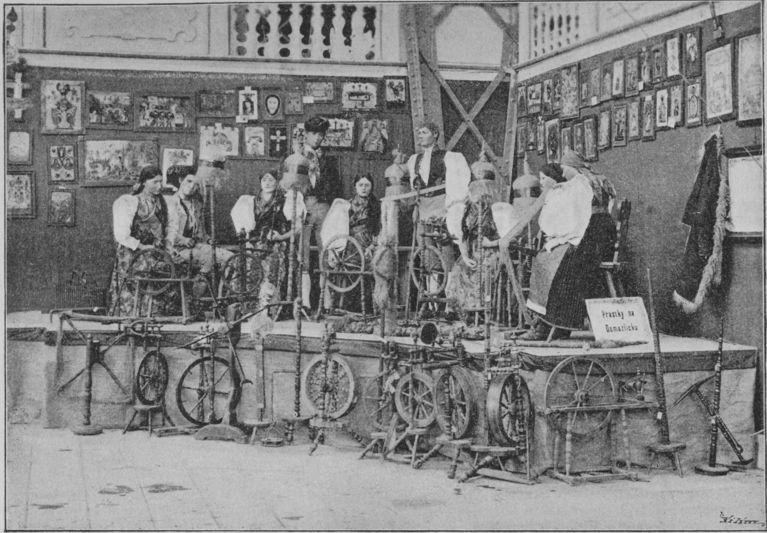 Model of traditional spinning (cs: Přástky) in Domažlice region, displayed on Czech & Slavonic Ethnographic Exhibition in Prague in 1895.